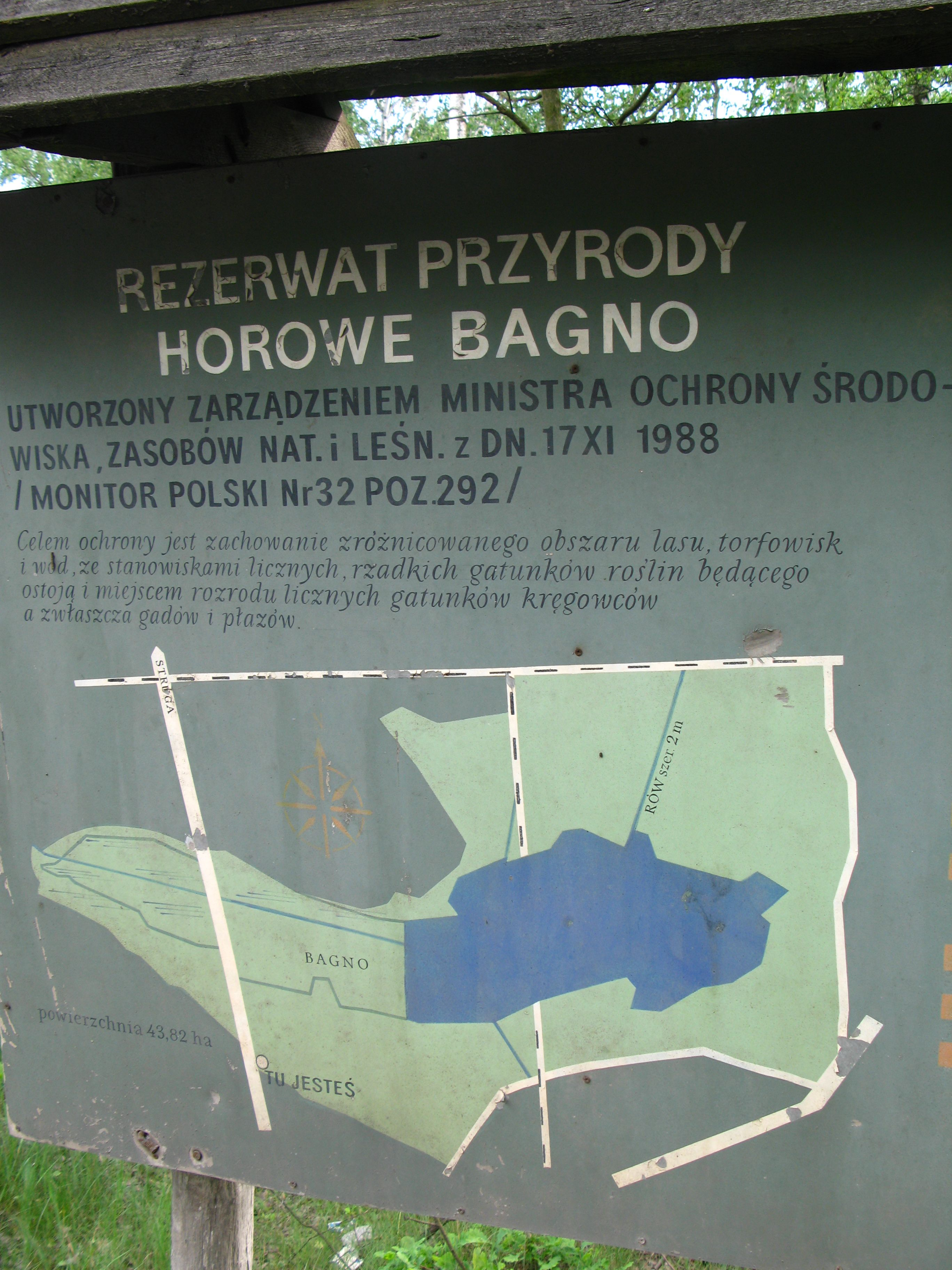 Nature reserve Horowe Bagno - map